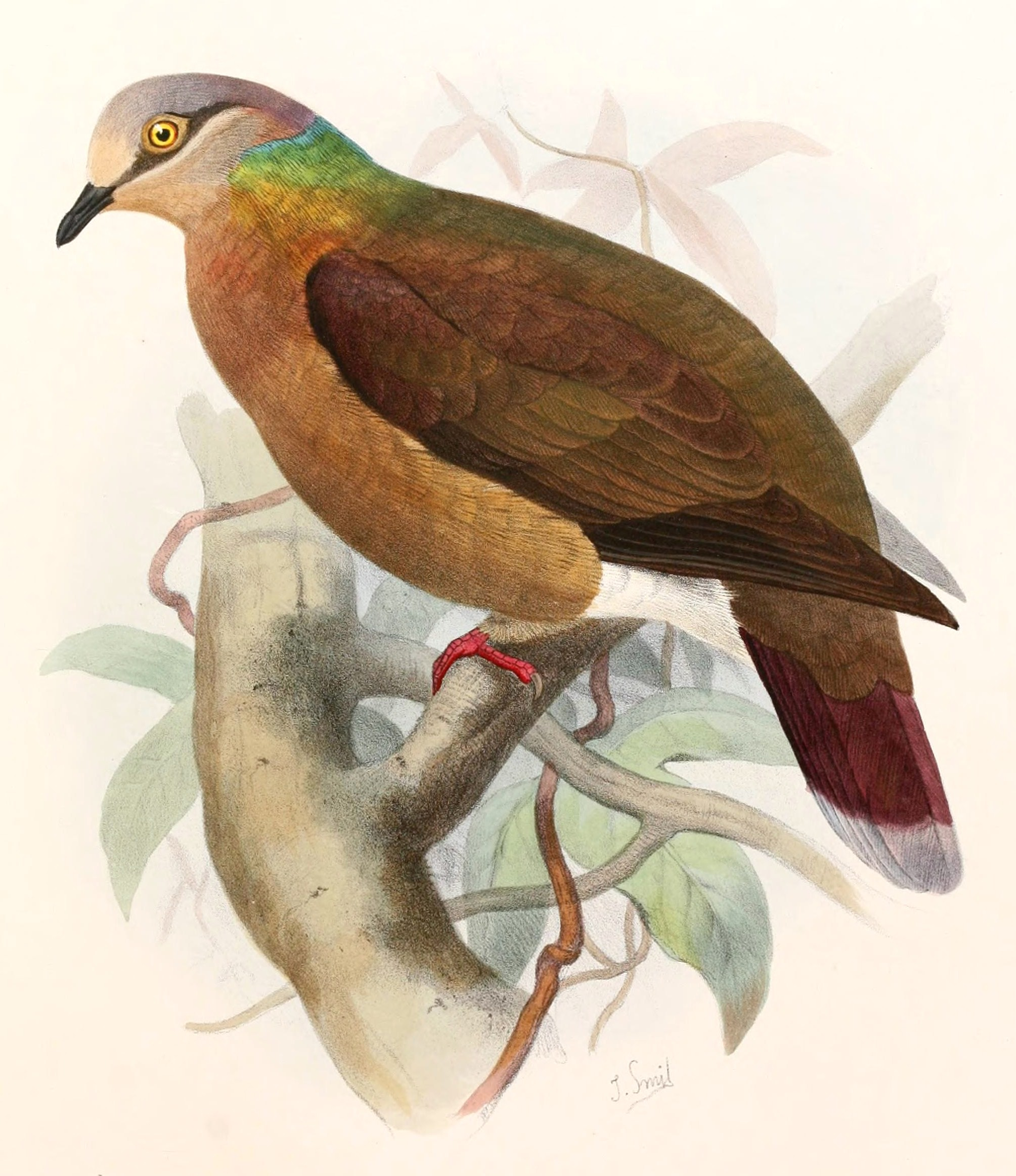 « Phabotreron brevirostris » = Phapitreron leucotis brevirostris (Subspecies of White-eared Brown Dove)